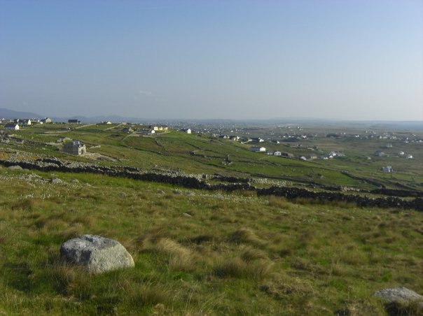 Some one-off housing developments scattered in Gweedore, Donegal.